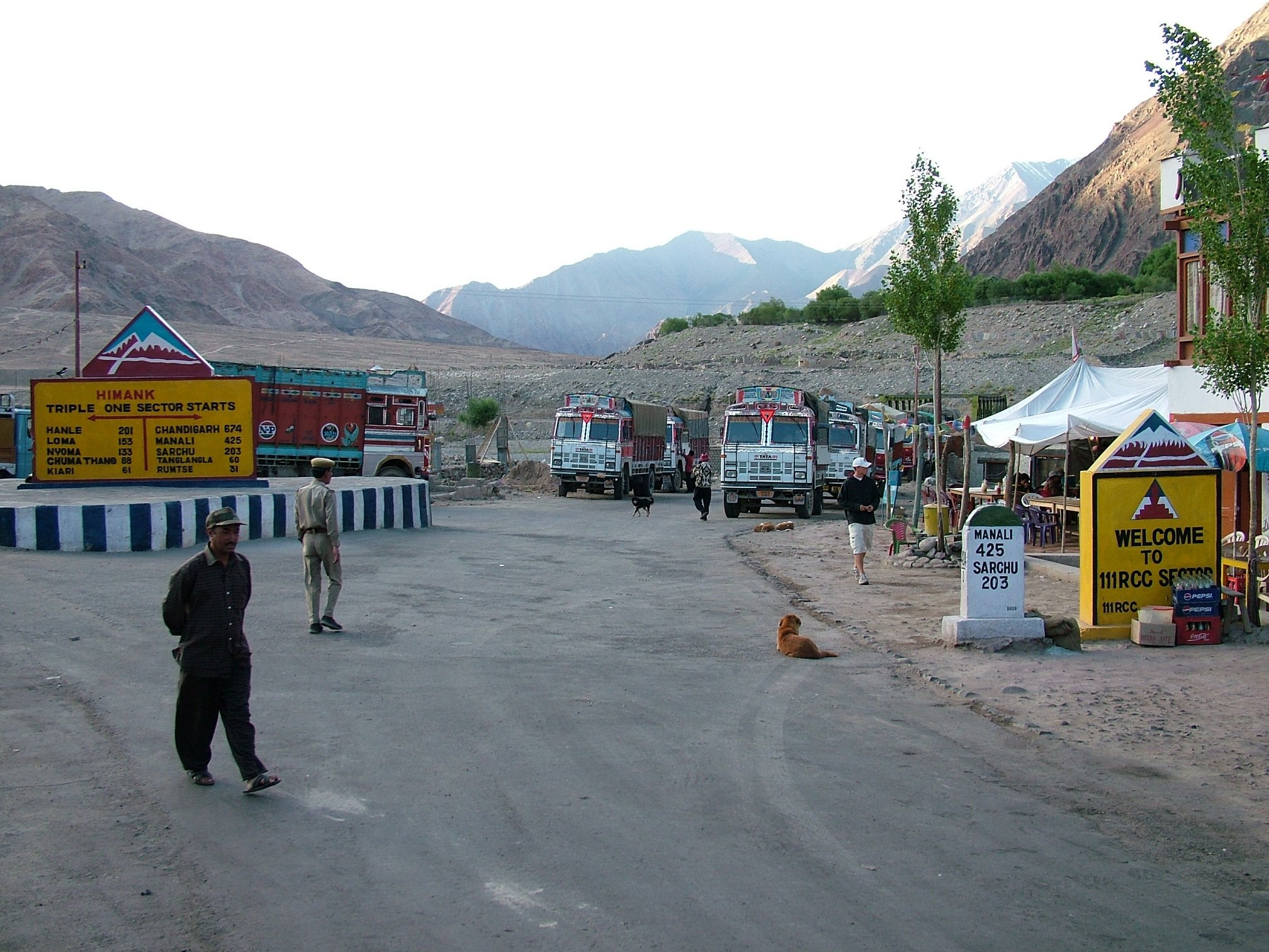 The village of Upshi in Ladakh, 50 km (31 miles) east of Leh.